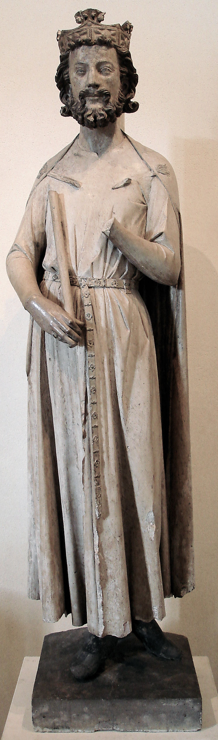 Depicted person: Childebert I